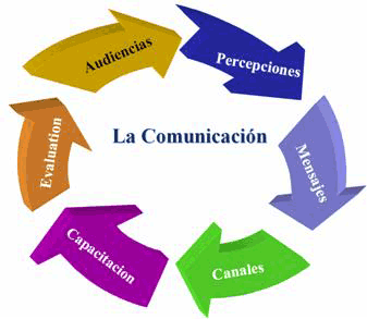 LA COMUNIÁCACION